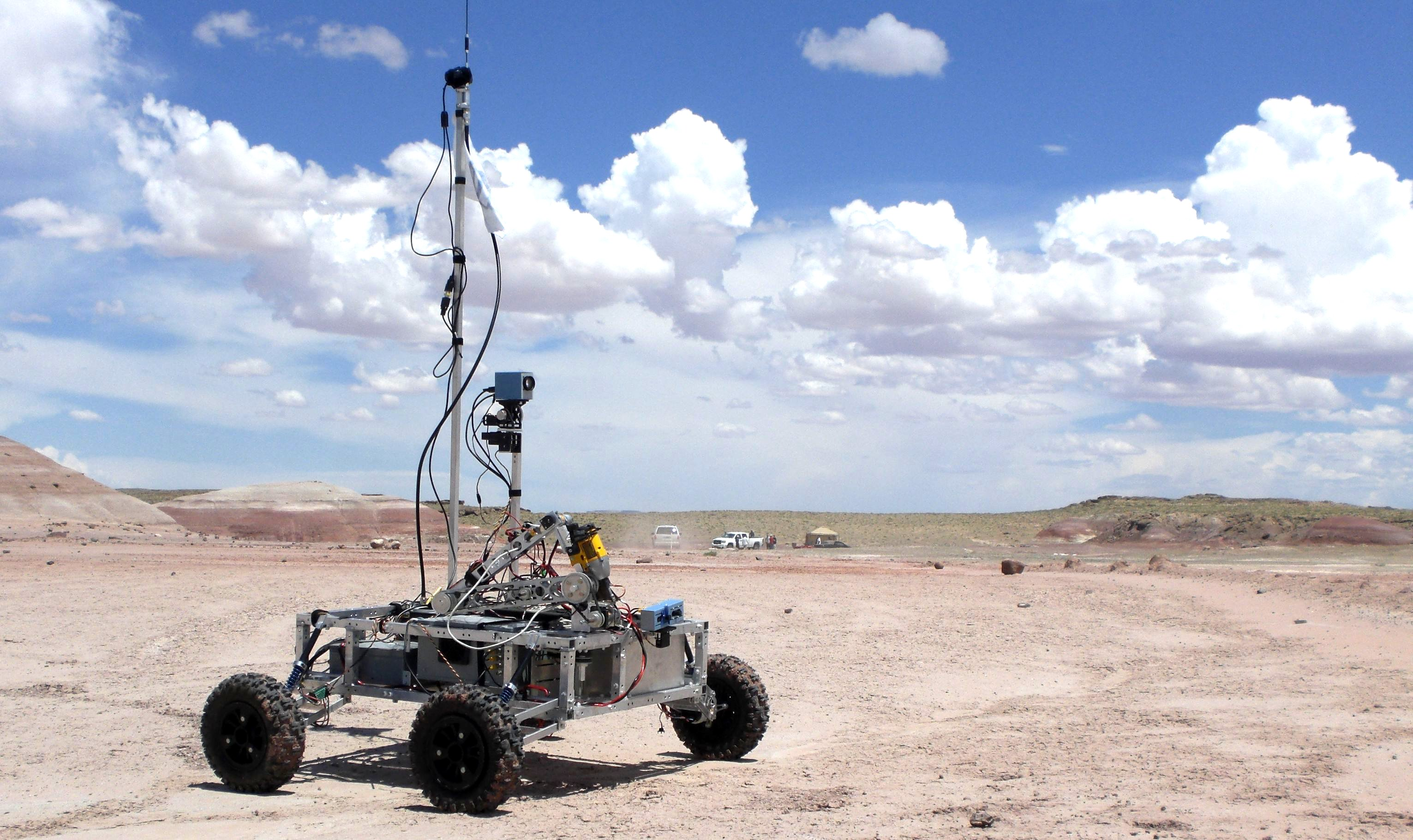 BYU Mars Rover for May 2009 at the Mars Desert Research Station near Hanksville, Utah